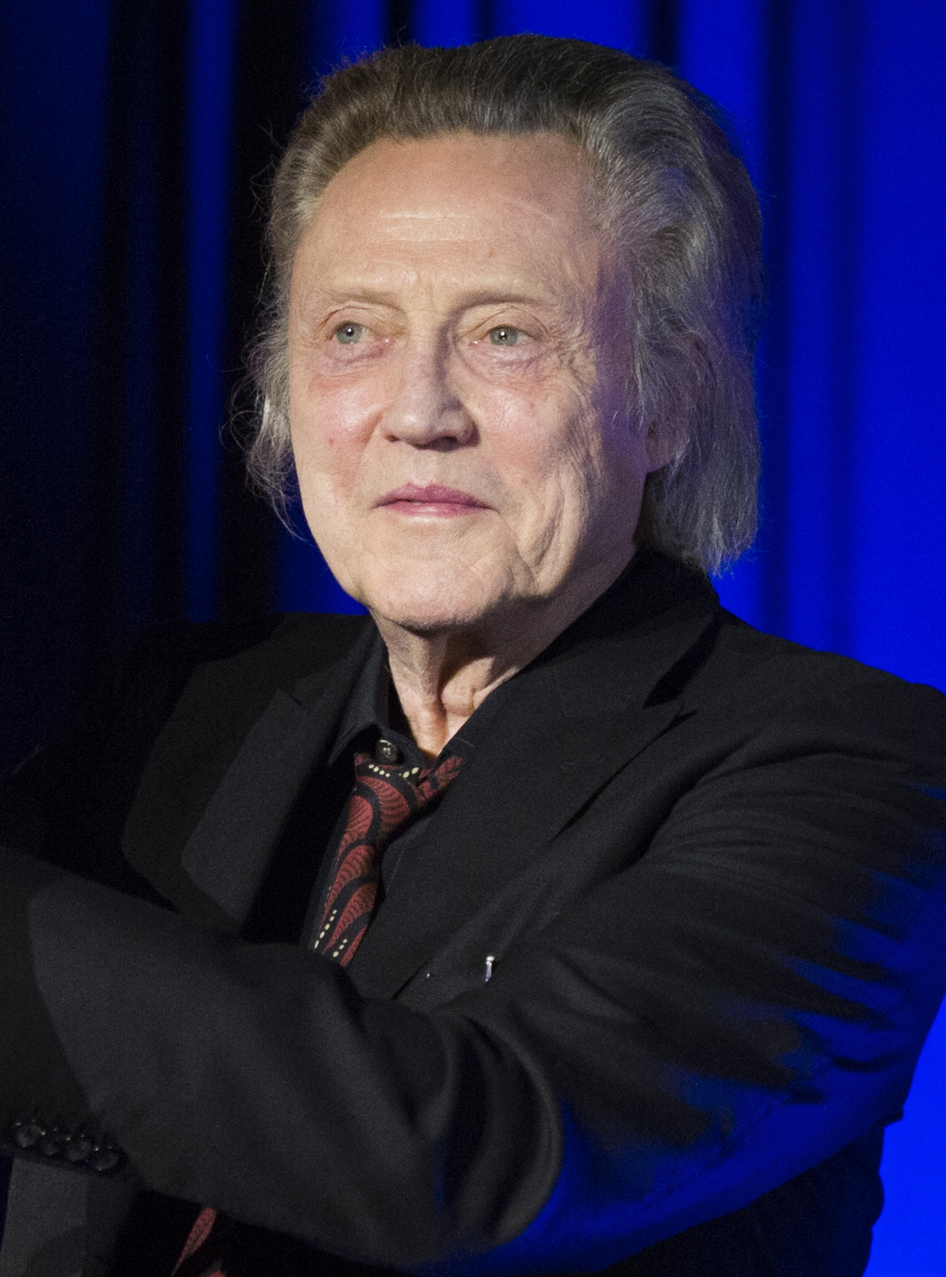 Christopher Walken receiving the Rencontres 7e Art Lausanne 2018 honorary award during the closing ceremony.